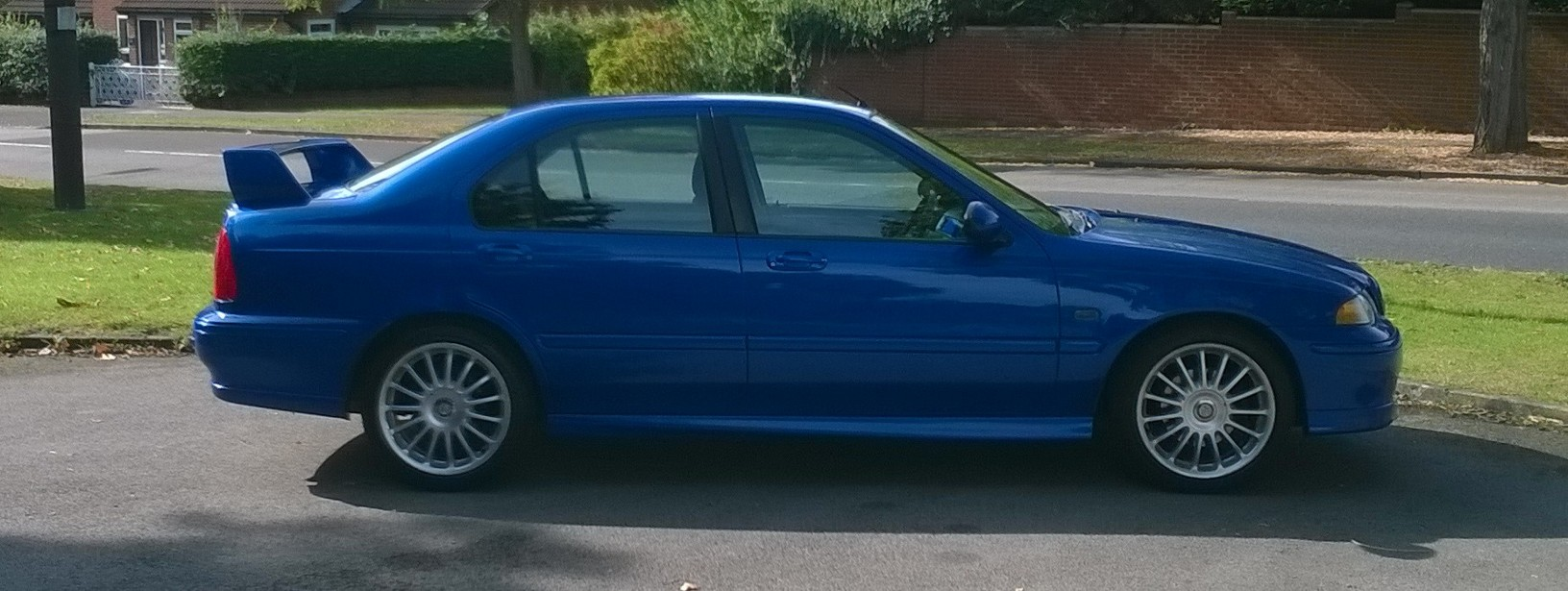 MG ZS 180